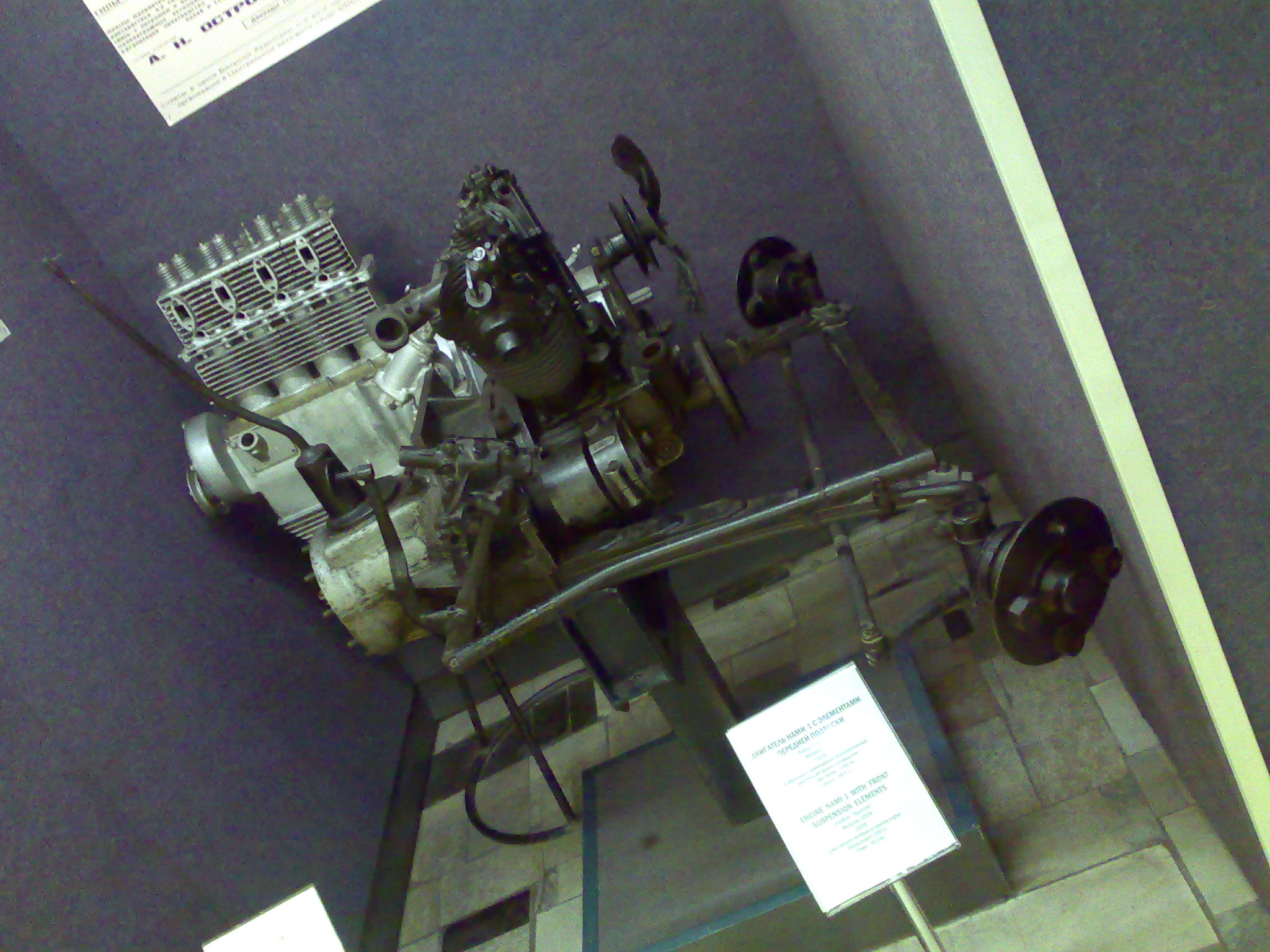 NAMI-1 car engine and front suspension components